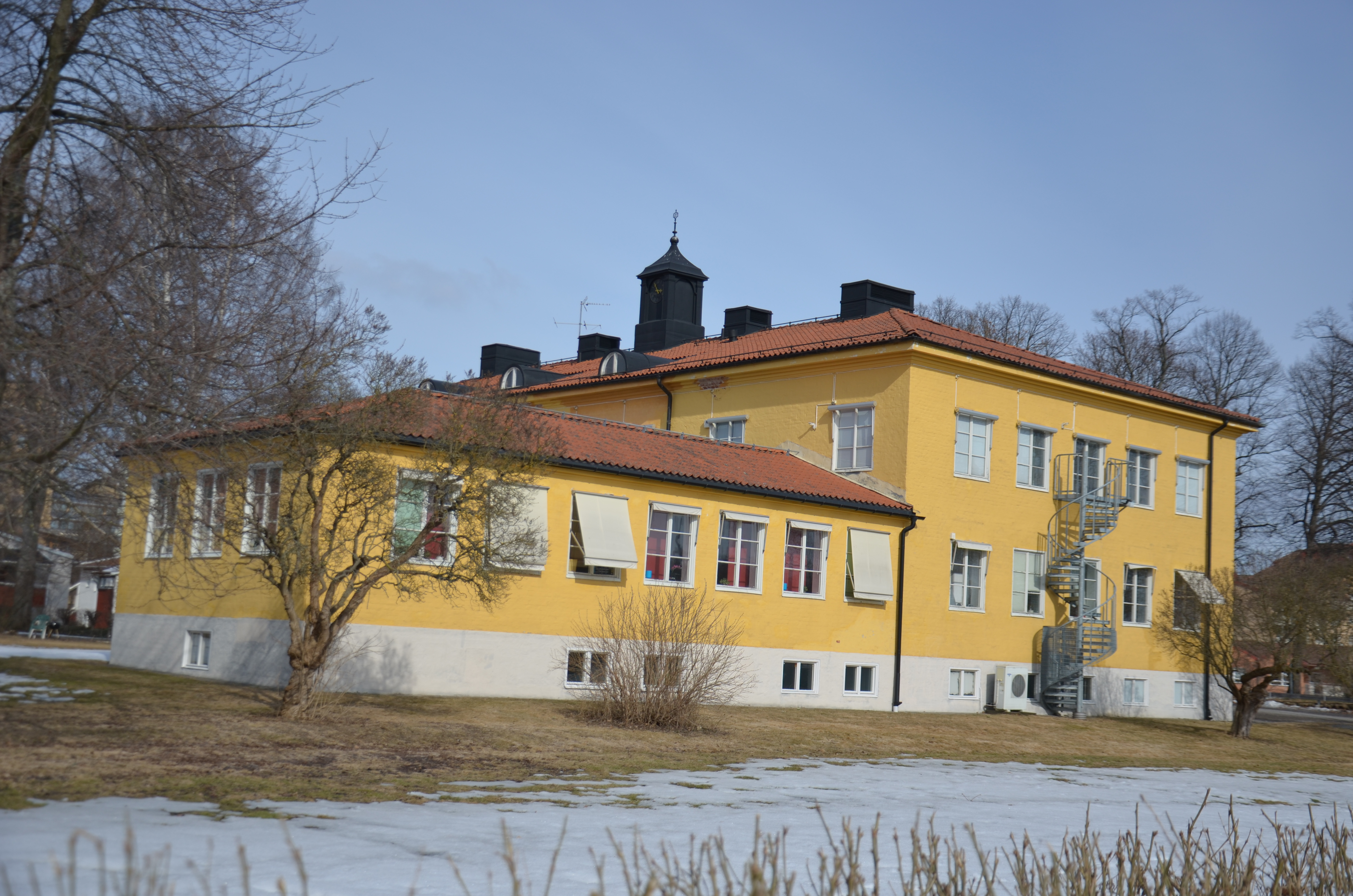 Tidigare Statens centrala frökontrollanstalt, Bergshamra, Solna